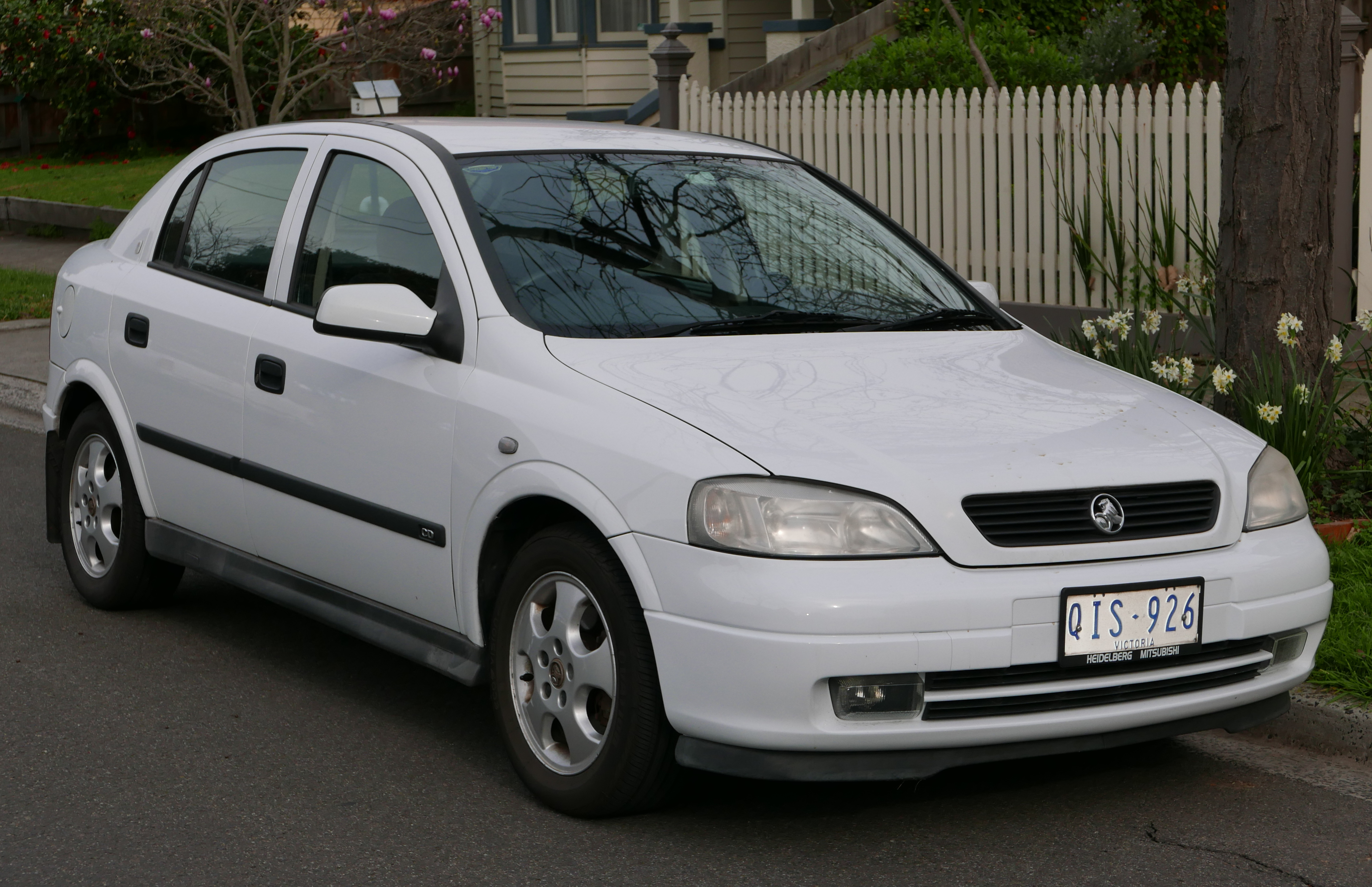 2000 Holden Astra (TS) CD Olympic Edition 5-door hatchback. Photographed in Ivanhoe, Victoria, Australia. Vehicle registration enquiry resultsJurisdictionVictoriaRegistrationQIS926Chassis codeW0L0TGF48Y5269880Engine codeX18XE120N82431Compliance date2000-08Year of manufacture2000